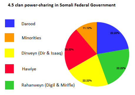 4.5 Somali federal government clan power-sharing system